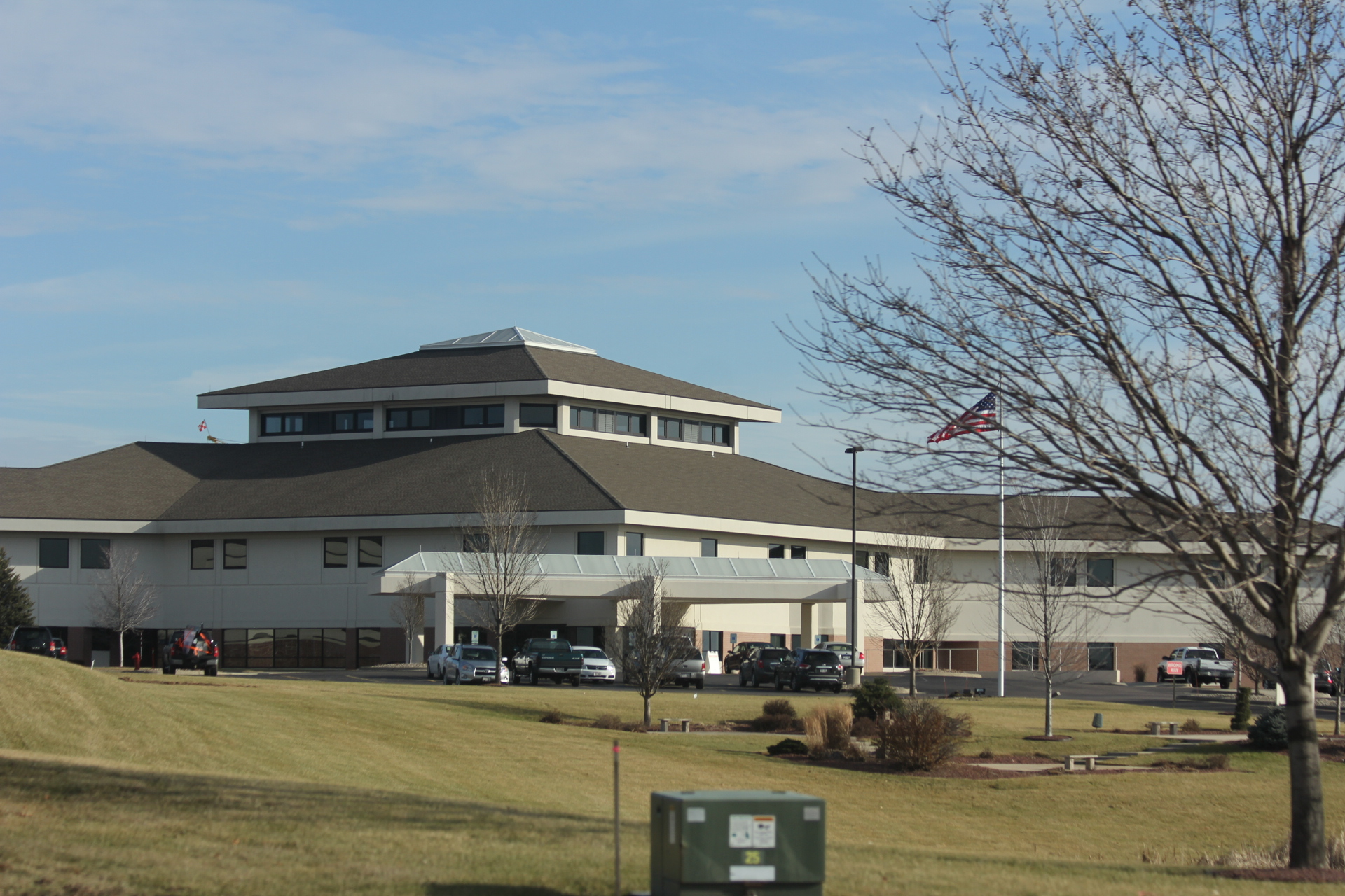 Divine Savior Health Care in Portage, Wisconsin.